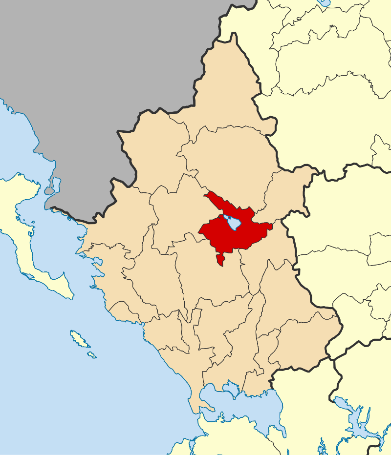 Locator map for Ioannina municipality in Greek region Epirus (2011)